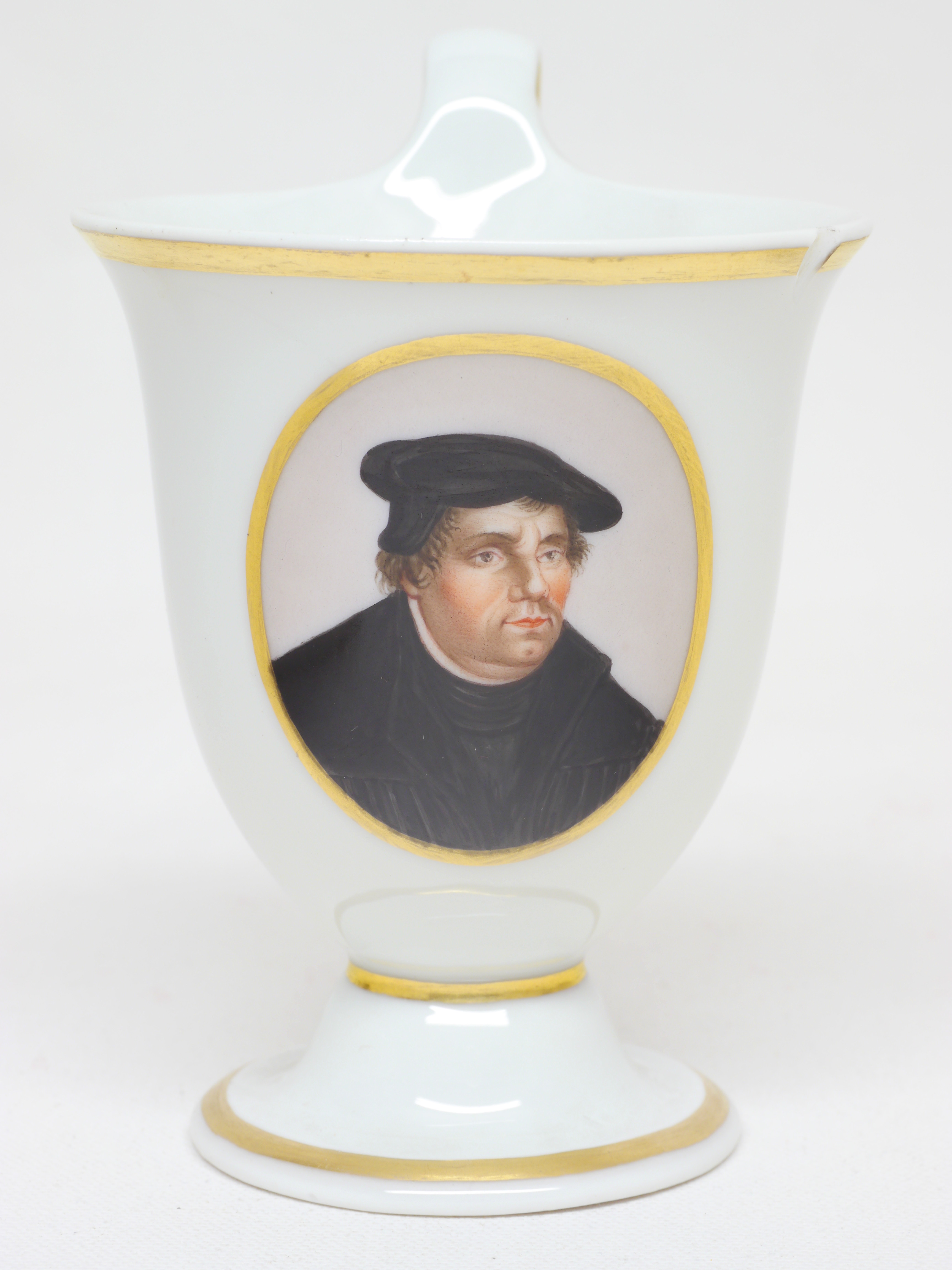 Martin Luther (1483-1546) after a painting from 1586 by [:de:Lucas Cranach